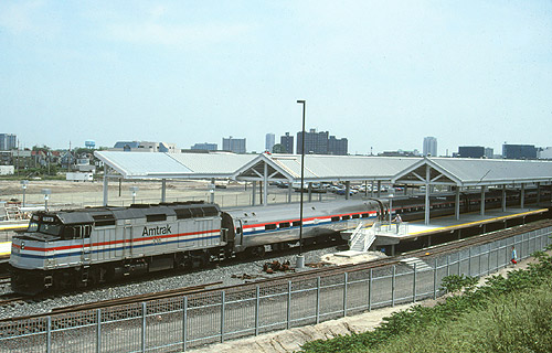 The Atlantic City Express at Atlantic City station in June 1989